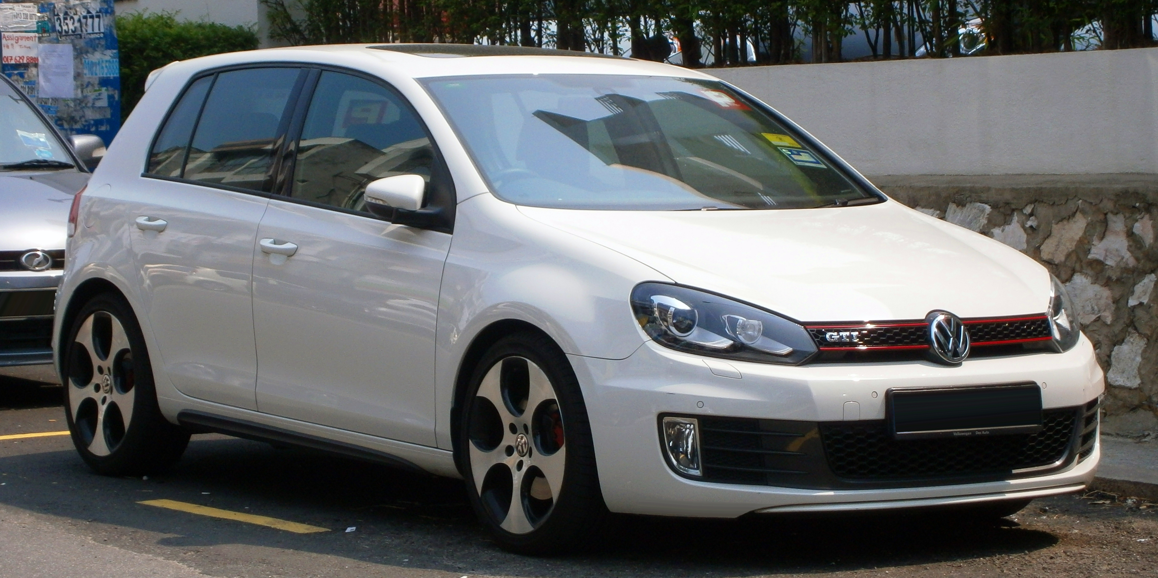 2012 Volkswagen Golf GTi (Mk6, 5-door) in Subang Jaya, Malaysia. Designed & Assembled in Germany